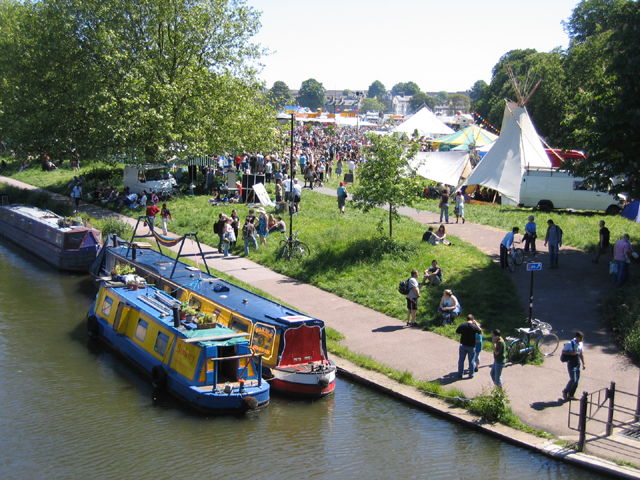 Strawberry Fair, Cambridge. View of the annual event on Midsummer Common, from the Victoria Avenue bridge over the Cam.